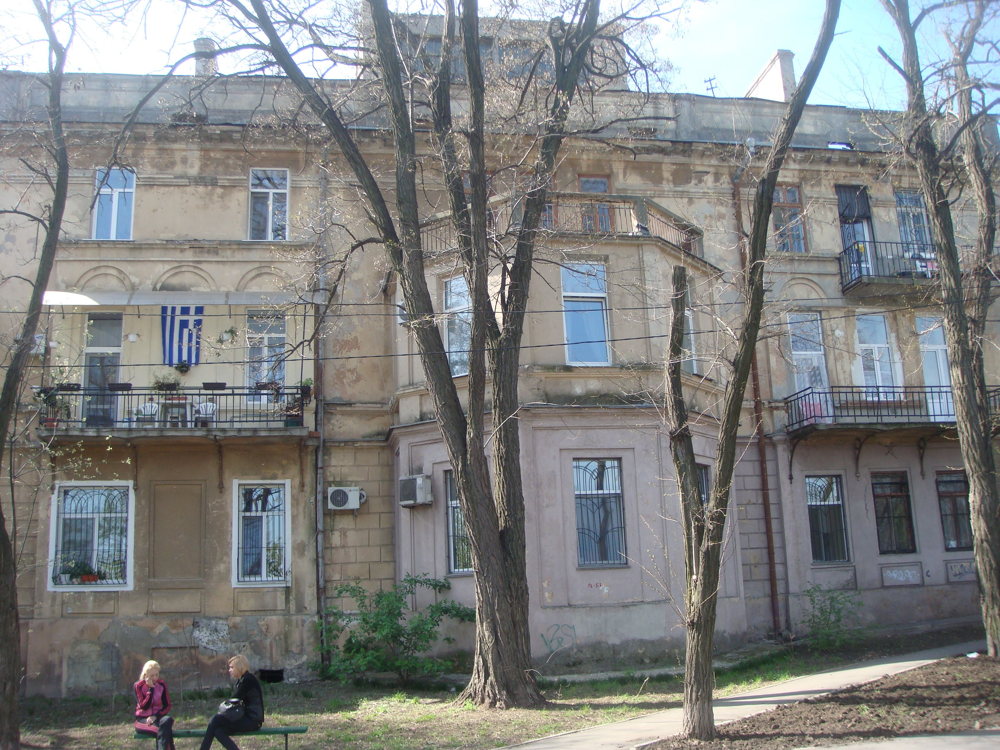 House of General of Russian Imperial Army Fedor Radetsky in Odessa